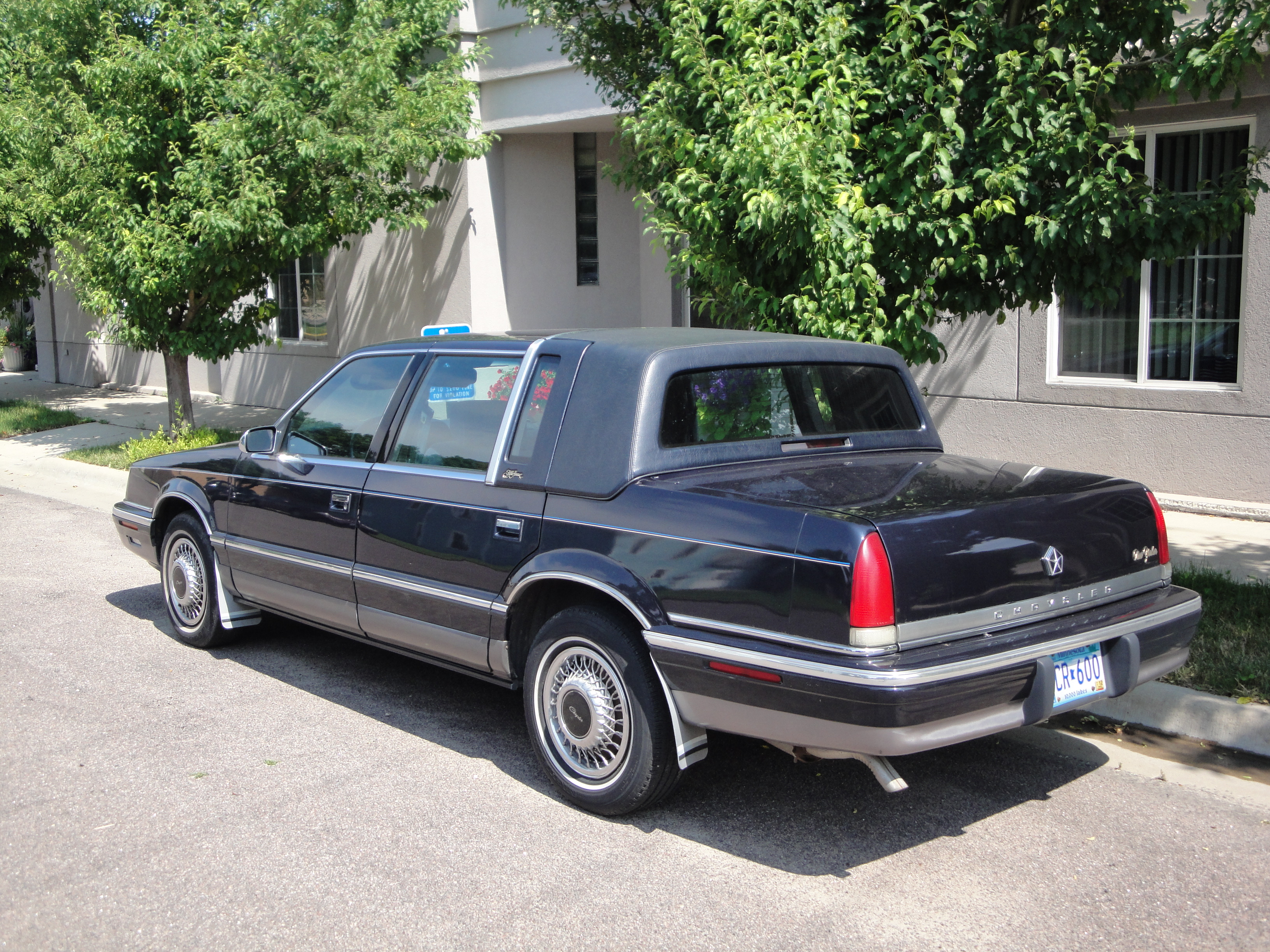 93 Chrysler New Yorker Fifth Avenue